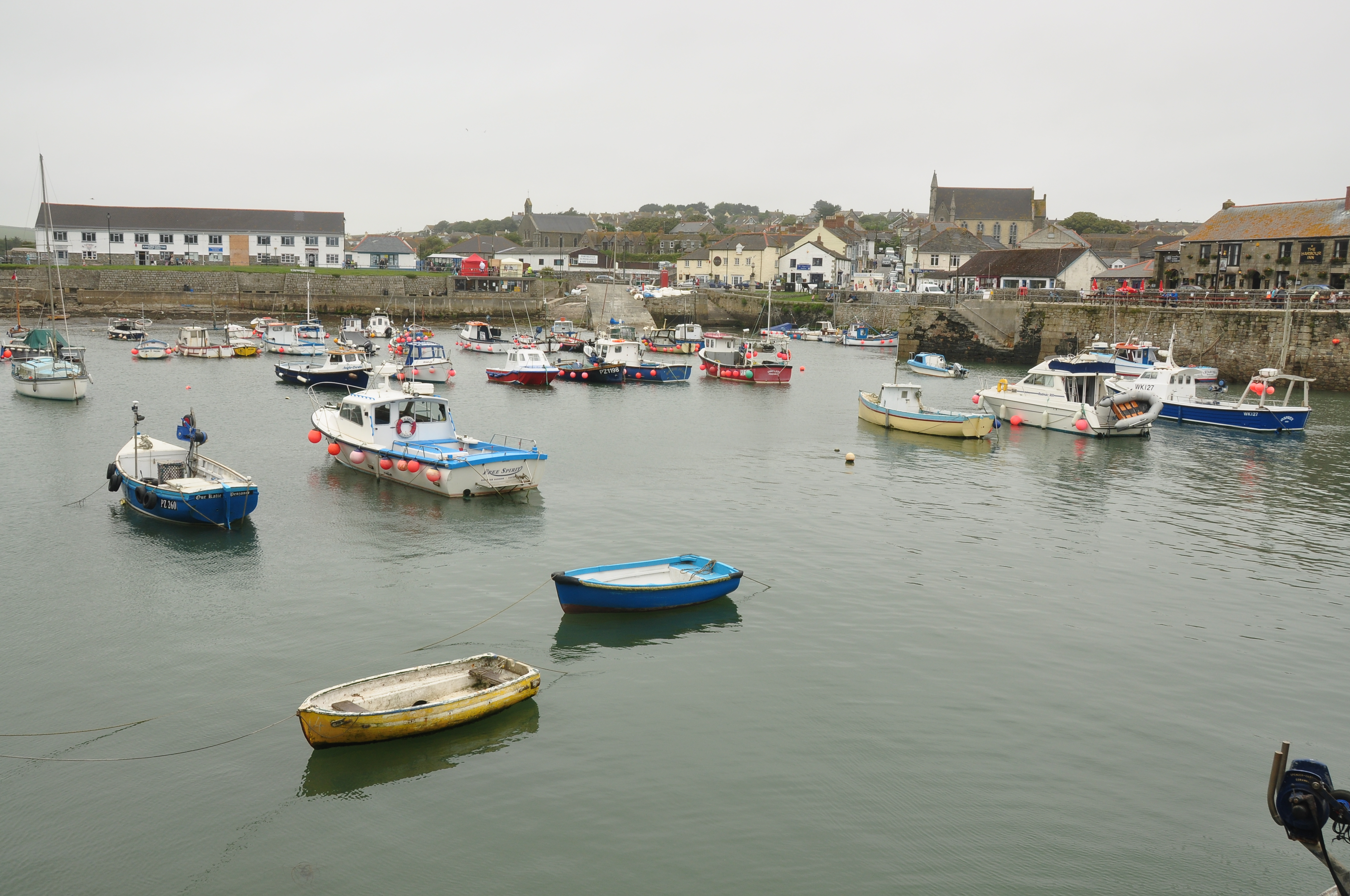 Boats in Porthleven harbour